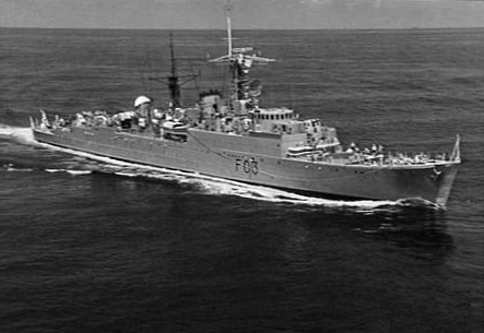 Aerial starboard bow view of the former Australian destroyer HMAS Quiberon (G81) after her conversion to an anti submarine frigate (new pennant "F03"). Externally her destroyer origins are indicated only by her funnel and hull as all superstructure above the upper deck has been replaced. The ship's new armament consisted of a twin 40 mm Bofors Mark 5 AA mounting forward and 4 inch Mark 16 guns in a twin Mark 19 mounting aft. Note the launching rails for flare rockets fitted to the side of the mounting. The guns were controlled by the close range blind fire director sited just forward of the 4 inch mounting. Its cover has been retracted and it is trained to port revealing the antenna of the type 262 fire control radar. Two Limbo anti submarine mortars and their magazines were fitted in an echelon arrangement aft. A type 277 height finding radar was fitted just above the bridge. Type 293Q air/surface search and type 974 navigation radars were fitted to the foremast.